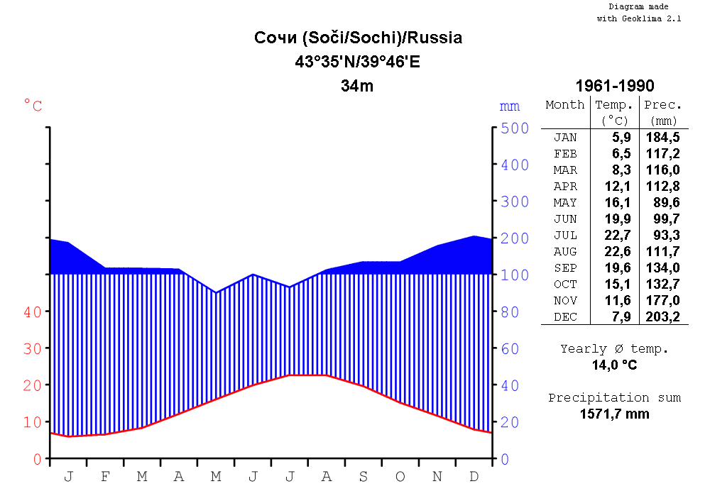 climate chart of Soči, Russia, for the period of time from 1961 to 1990, in the format by Walter and Lieth, metric, °Celsius and millimeters, chart made with Geoklima 2.1, label in English